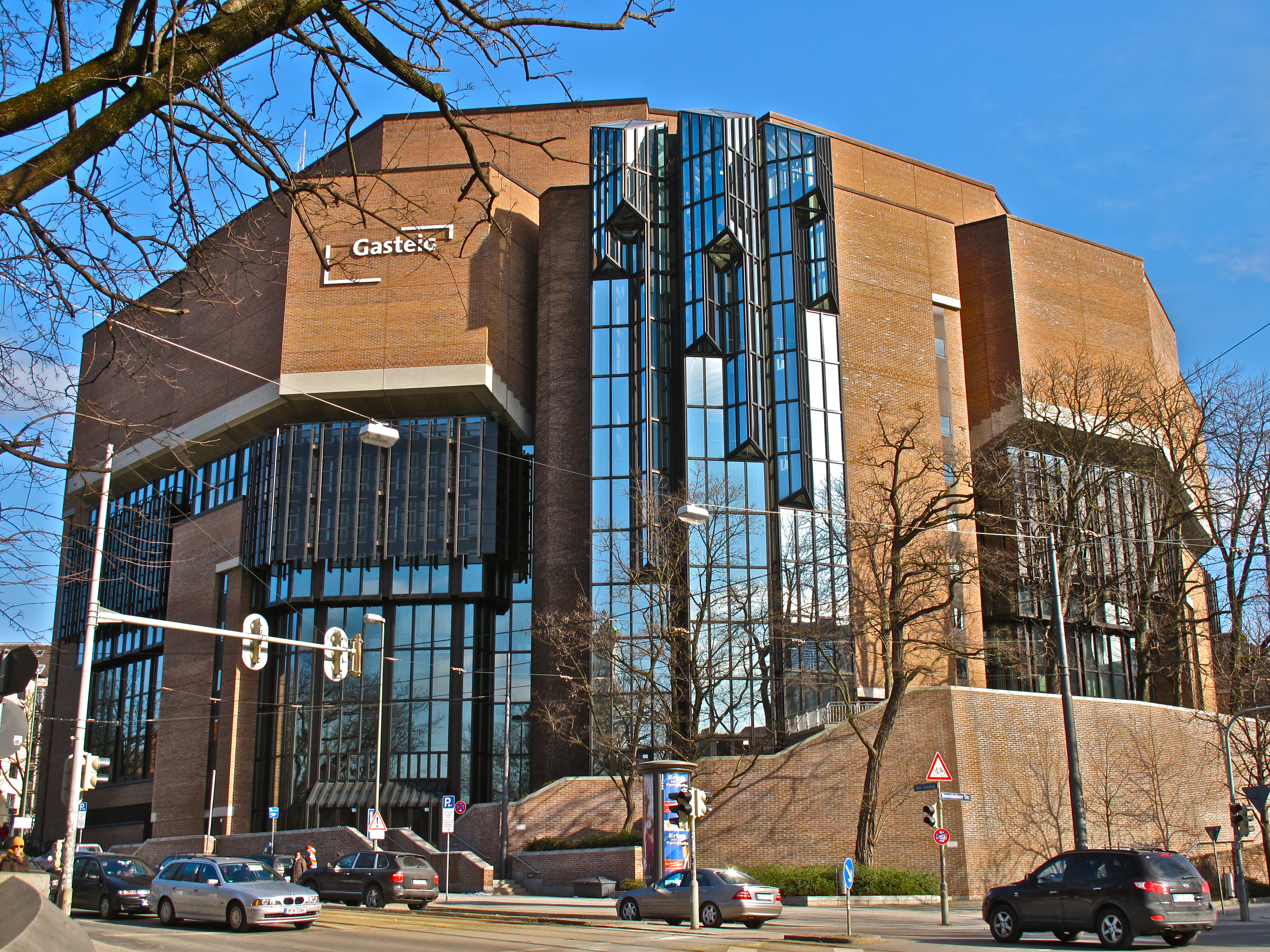 The Philharmonie of the Gasteig (cultural centre of the city of Munich).